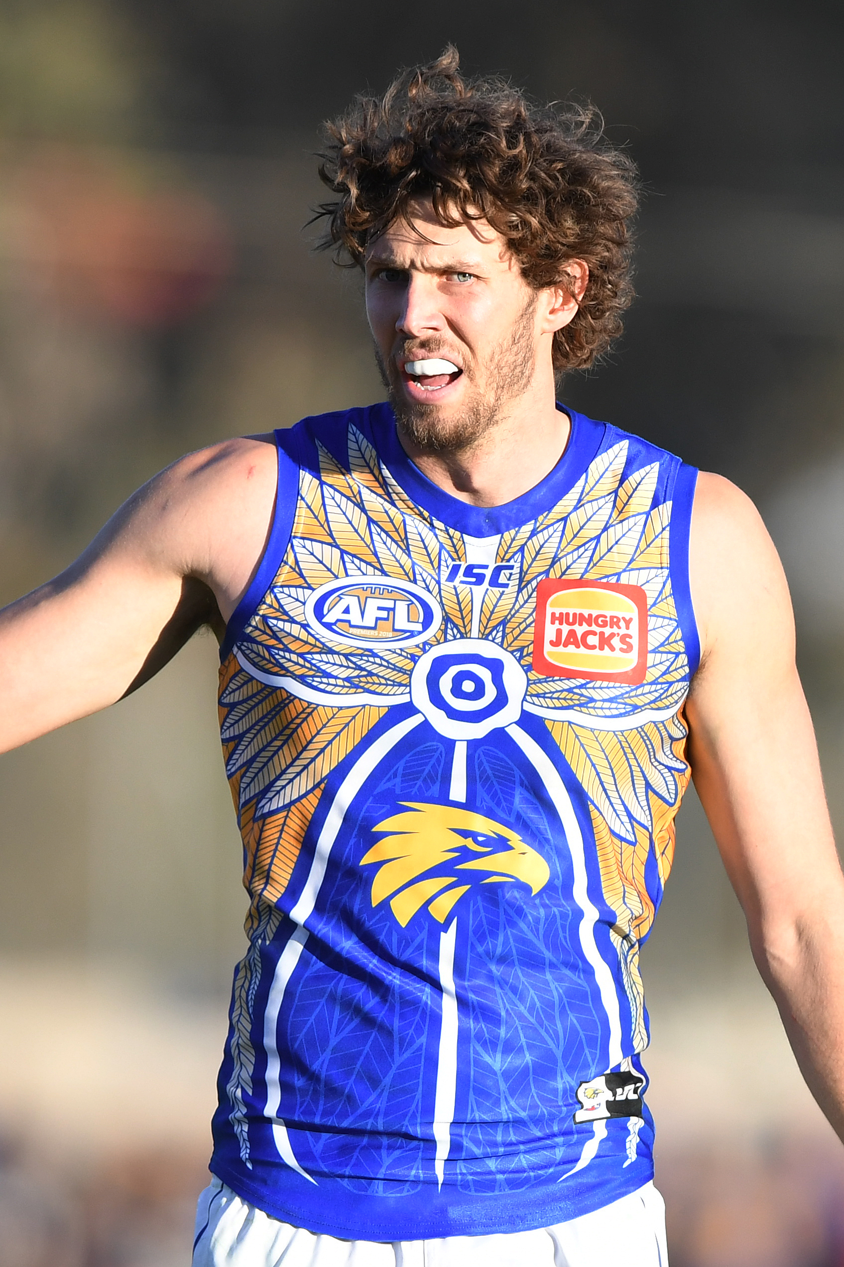 Tom Hickey of West Coast during the 2019 AFL round 18 match between Melbourne and West Coast at Traeger Park on Sunday, 21 July 2019 in Alice Springs, Northern Territory.